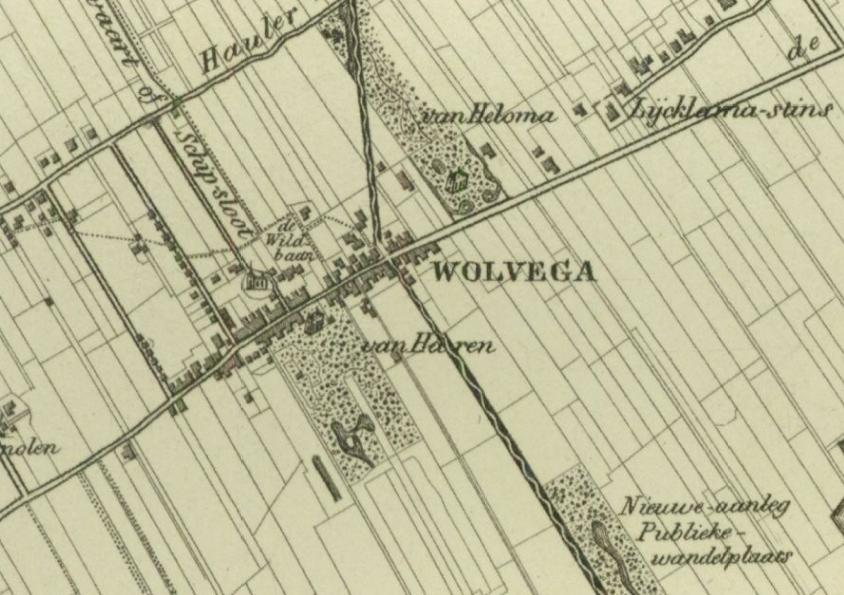 De Tiende Grietenij van Zevenwouden: Stelingwerf Westeinde